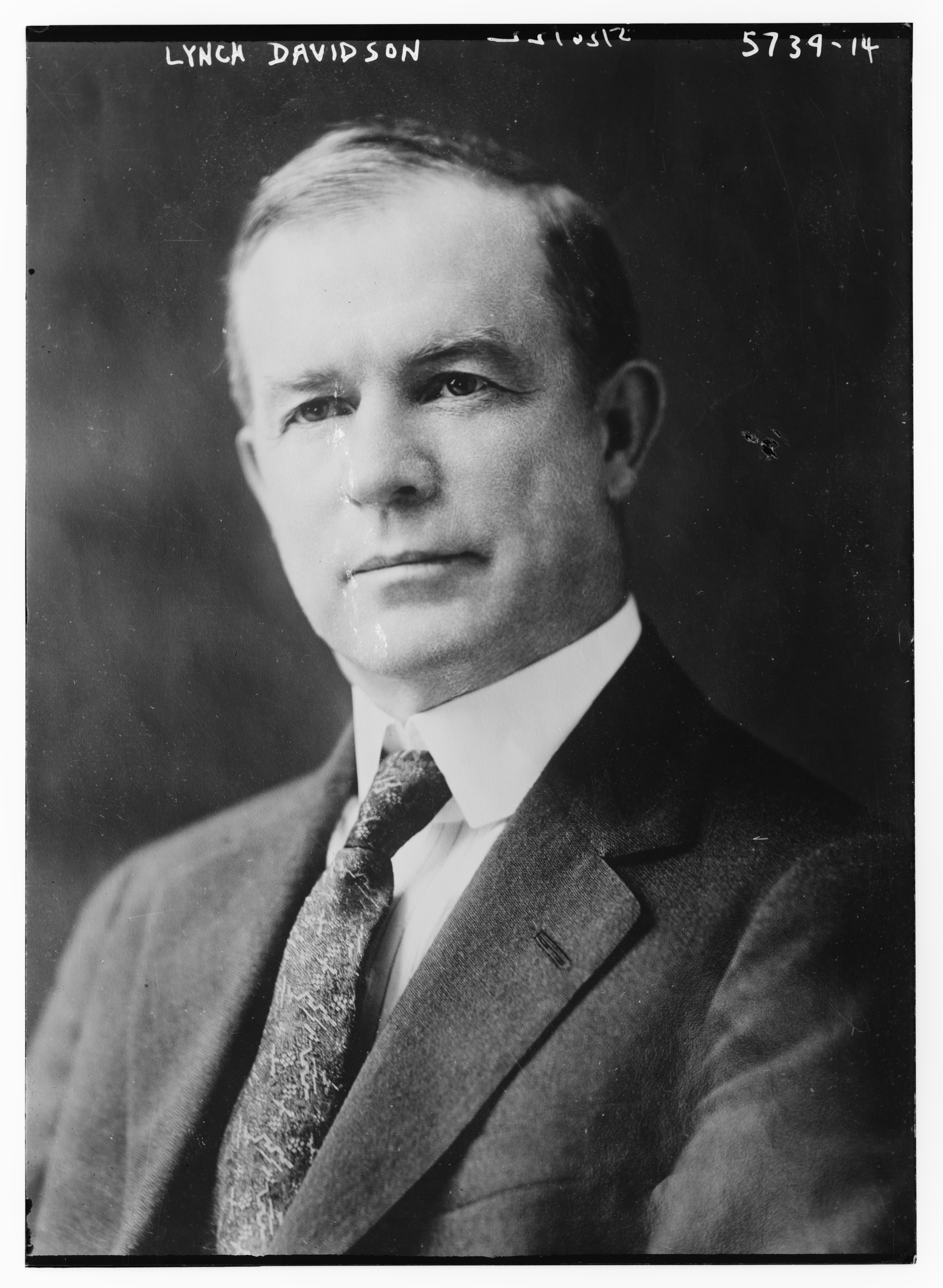 Title: Lynch Davidson Abstract/medium: 1 negative : glass ; 5 x 7 in. or smaller.